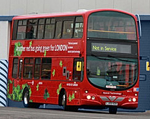 Arriva London North bus HV3 (reg. LJ09 KOH), a 2009 Volvo B5L with Wrightbus Eclipse Gemini bodywork, pictured on a pre-delivery demonstration visit to the Central garage of Lothian Buses in Edinburgh, Scotland - see File:Arriva London hybrid bus Volvo B5L Wrightbus, Edinburgh, 25 January 2010.jpg for full details (and a higher resolution of the image, minus the colour retouching of the background).